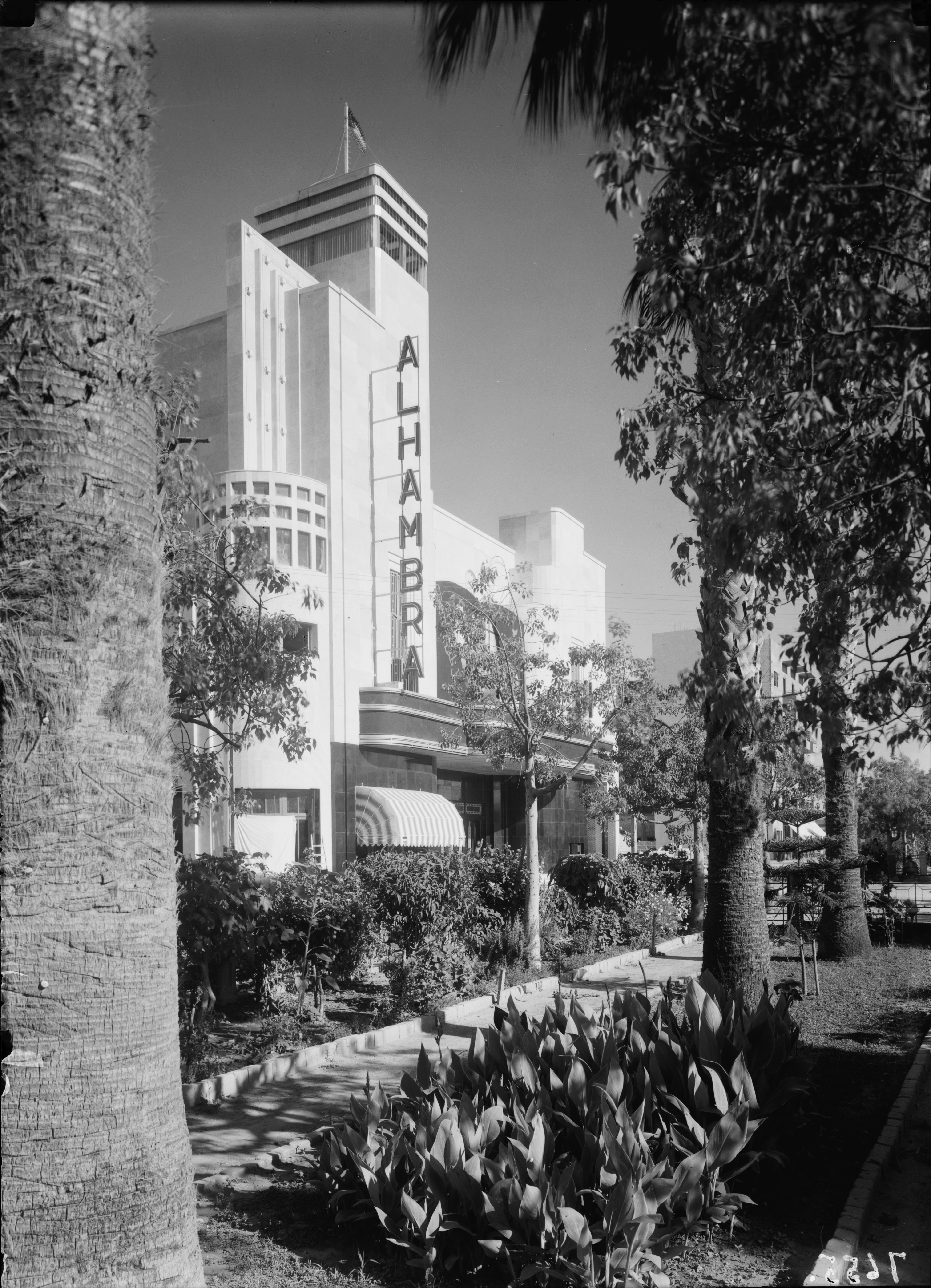 Title: Jaffa. Alhambra Cinema. Arab cinema in Jaffa "Alhambra" Abstract/medium: G. Eric and Edith Matson Photograph Collection Physical description: 1 negative